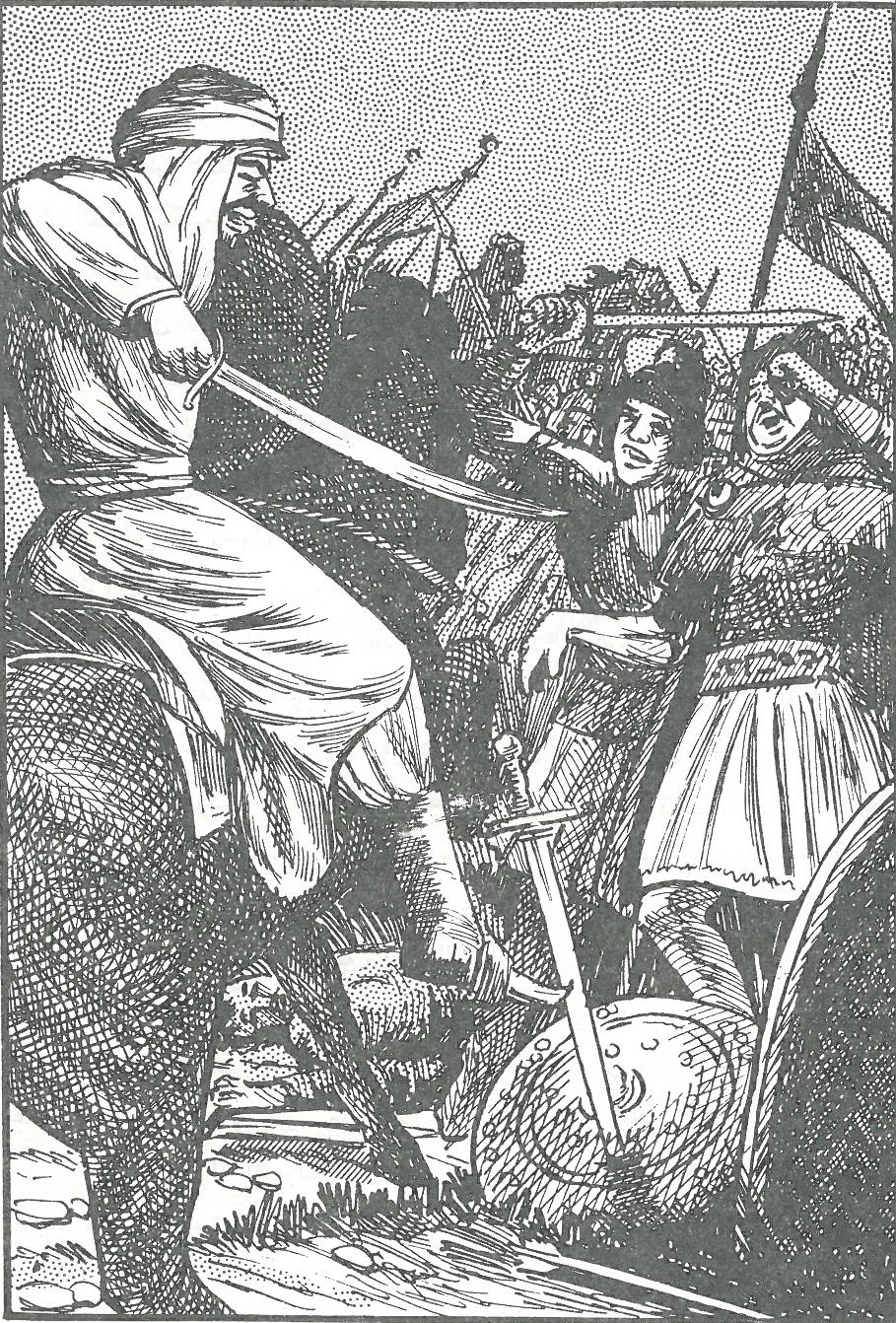 Khalid ibn al-Walid fighting the Byzantines during the Battle of Yarmouk.